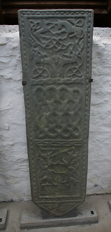 Kilmodan Sculptured Stones, Clachan of Glendaruel, Argyll and Bute, Scotland. Grave slab no. 6. Loch Awe school.